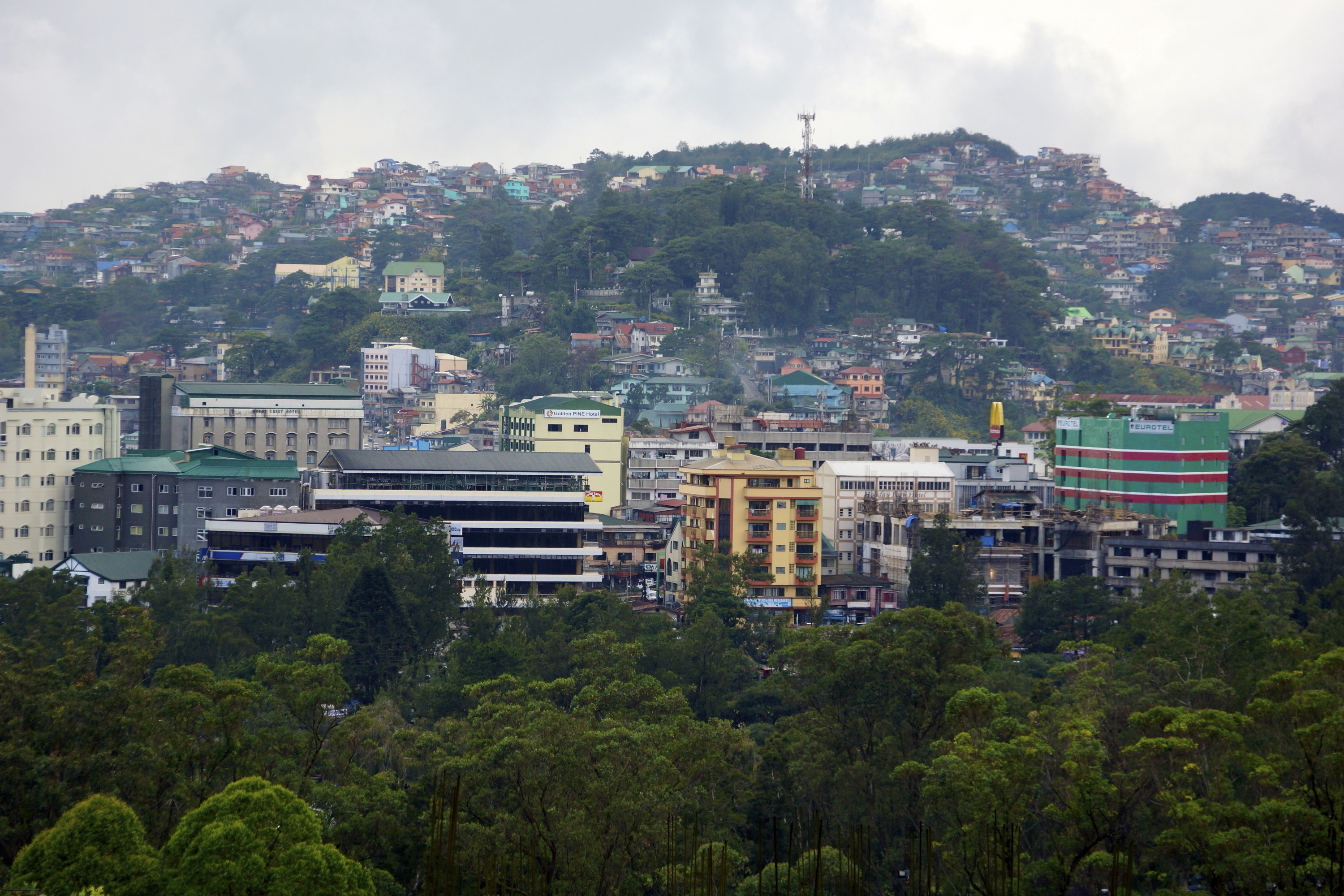 Landscape view of Baguio City, Philippines